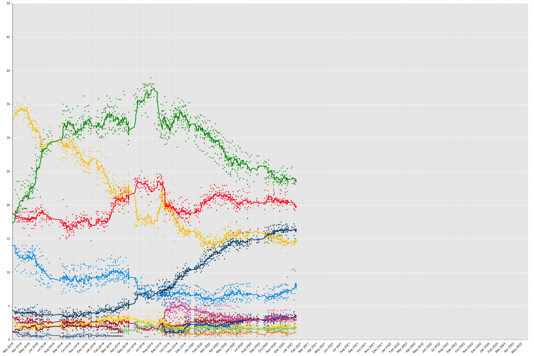 6-point average trend line of poll results from 4 March 2018 to the present day, with each line corresponding to a political party.